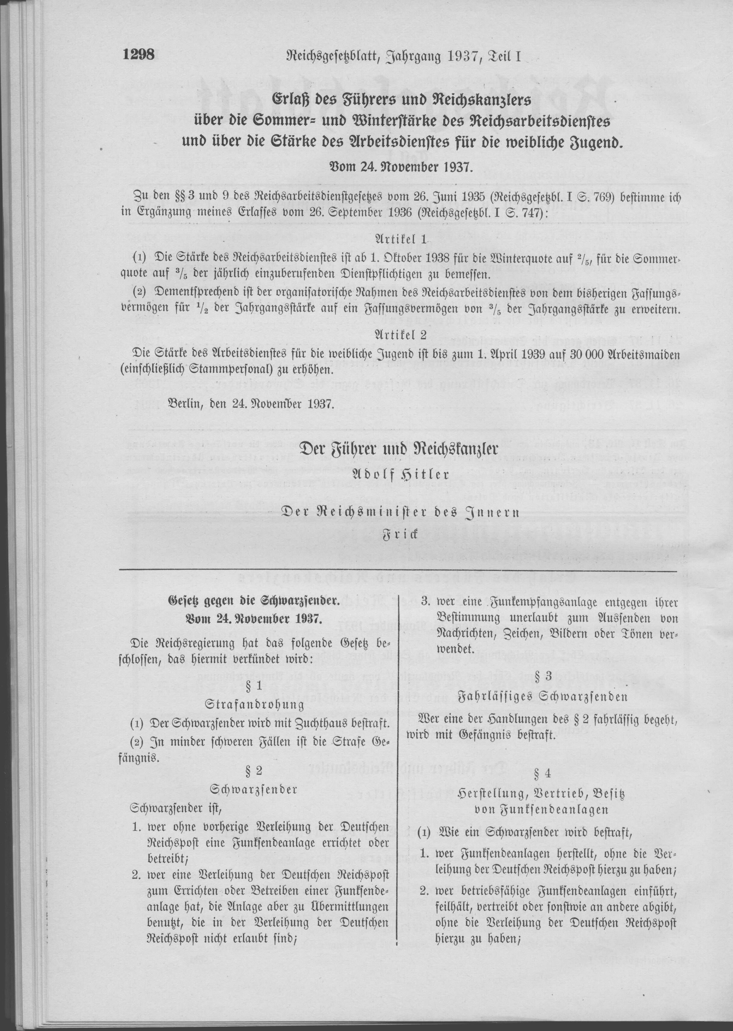 Scan from the Imperial Law Gazette of Germany, 1937, part 1